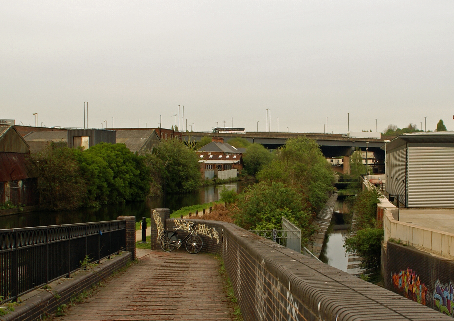 Birmingham (United Kingdom): The Birmingham Fazeley Canal, Hockley Brook and Spaghetti Junction in the back ground